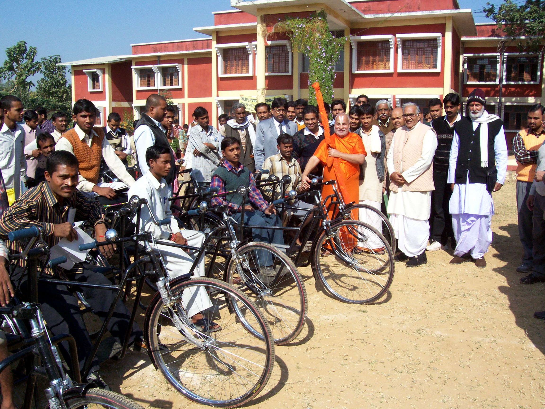 Jagadguru Ramabhadracharya with Mobility Impaired students in front of the main building of JRHU